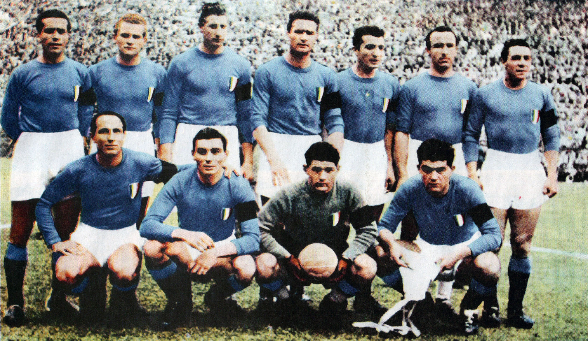 22 May 1949 at Stadio Comunale (now Stadio Artemio Franchi) in Florence. The Italian association football national team that faced Austria for the 1948–49 International Cup and beat them 3-1. It was the first official game after Superga air disaster in which the whole team of AC Torino died, and the players are wearing a black armband at their left arm to pay tribute to the memory of the dead players. From left to right, standing: Carapellese, Boniperti, Cappello, Tognon, Rosetta, Amadei, Lorenzi; crouched: Bertuccelli, Fattori, Franzosi, Annovazzi.